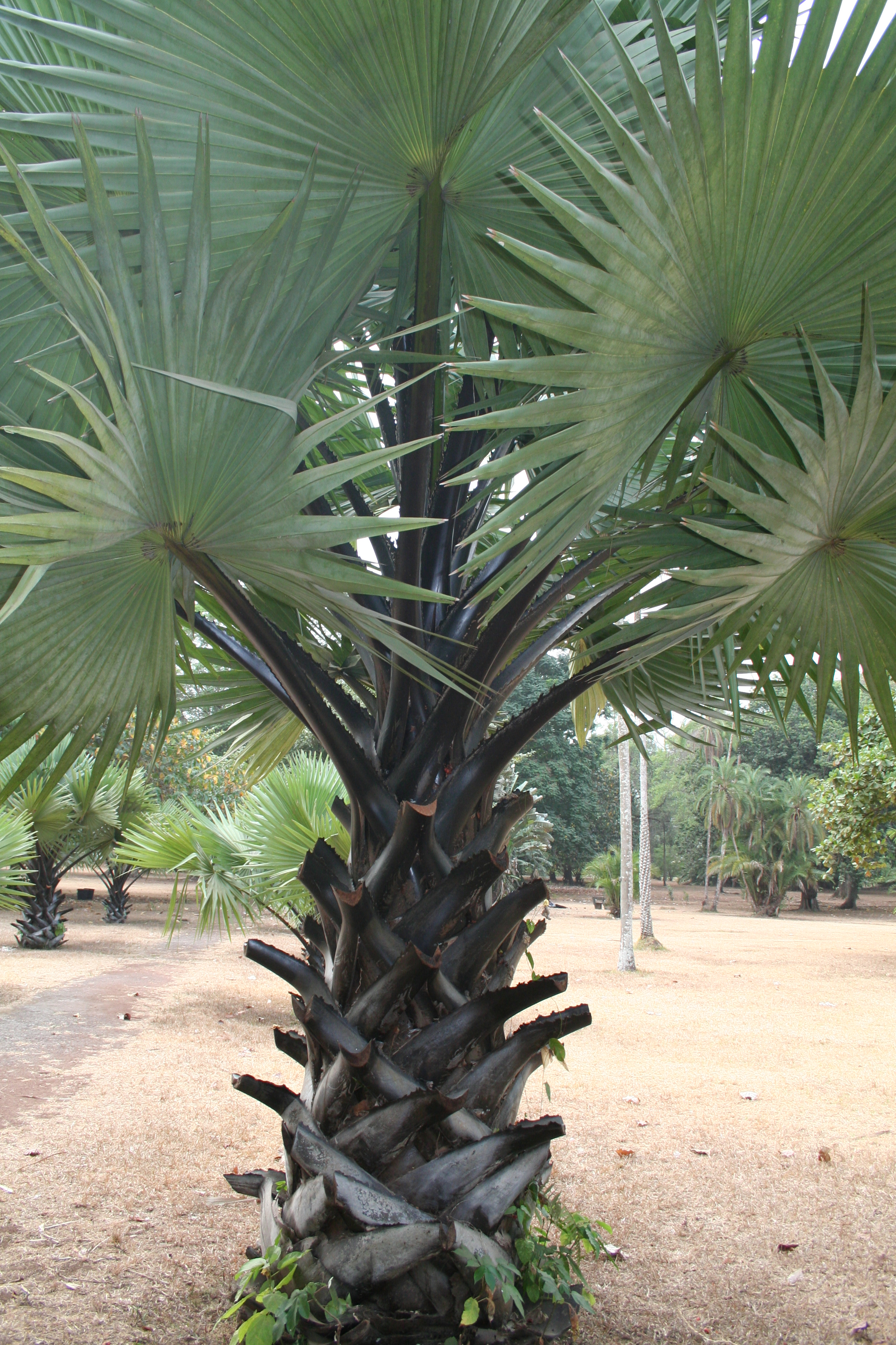 Borassus aethiopum, Limbe Botanical Garden, Cameroon